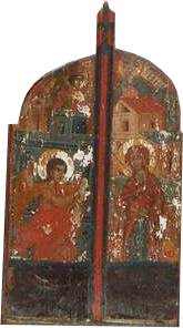 St. Athanasius Velušina Royal Doors